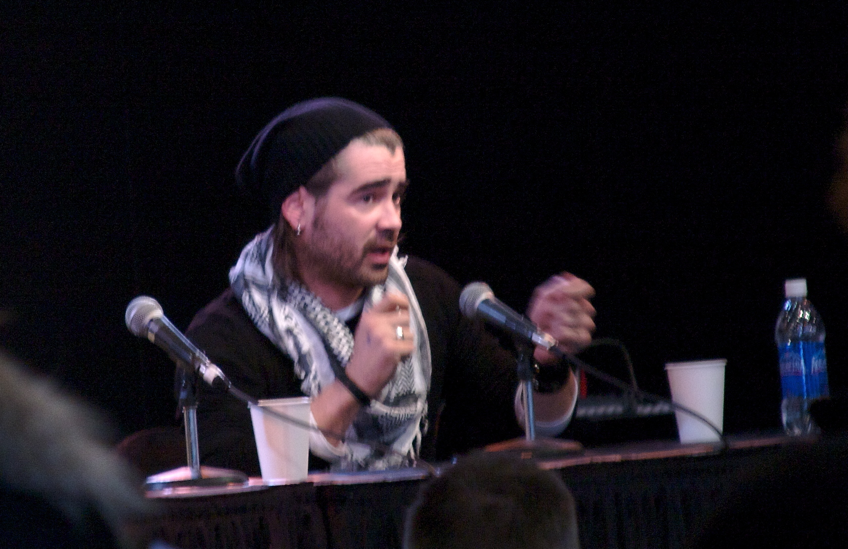 Colin Farrell at 2008 Slamdance Film Festival